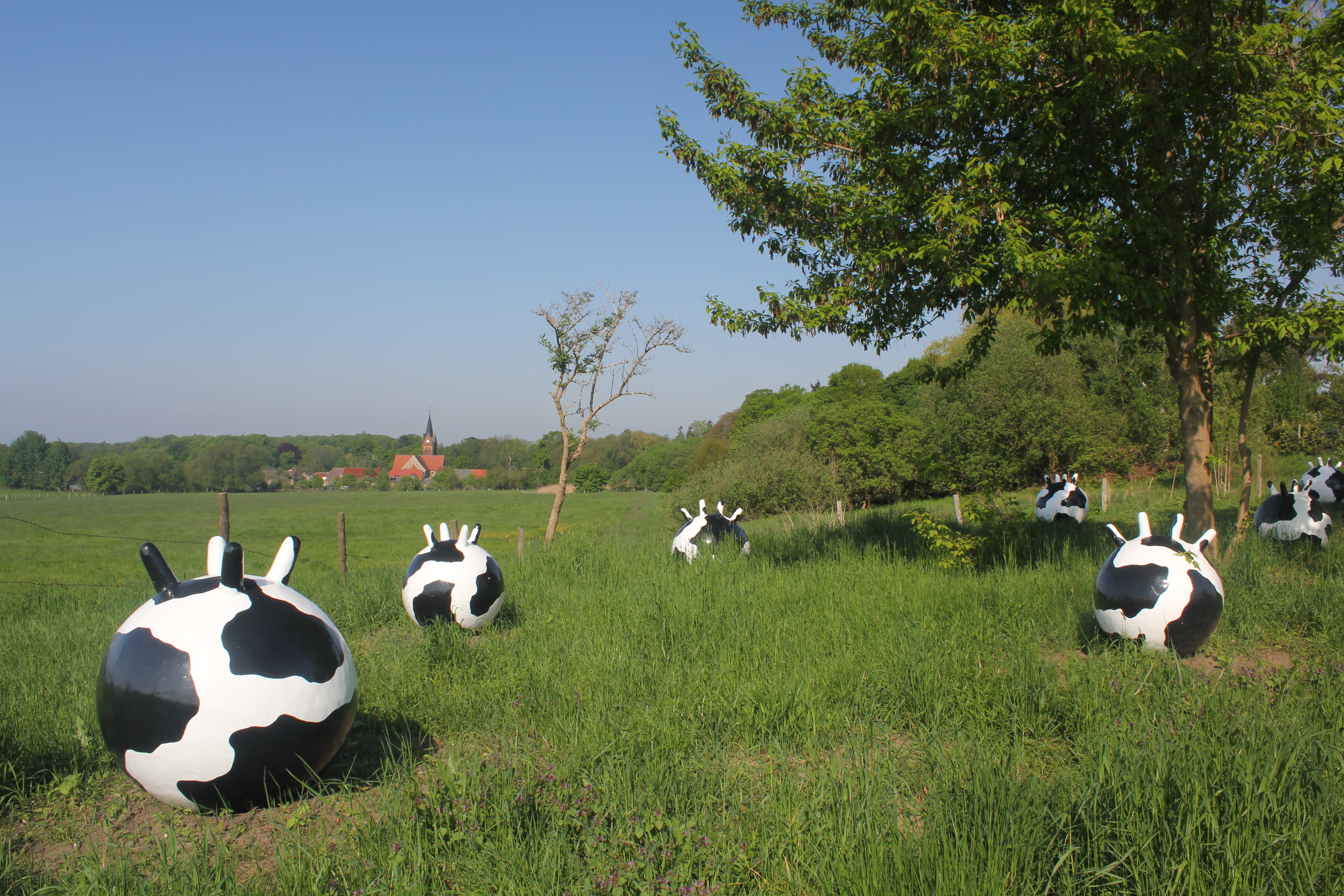 Sculpture Trail Hoher Fläming: "(K)UIER(EN) - Spazierengehen" by Silke De Bolle